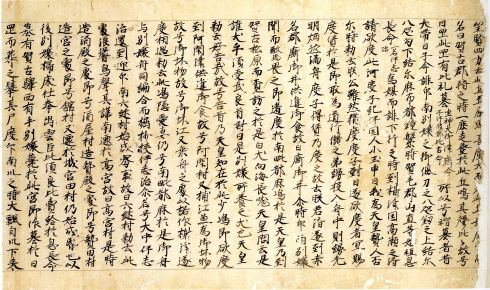 Fudoki of Harima Province (播磨国風土記, Harima no kuni fudoki). Transcription of an ancient record of culture and geography from the early Nara period; oldest extant fudoki manuscript. One handscroll, ink on paper. Located at Tenri University Library (天理大学附属天理図書館, Tenri daigaku fuzoku Tenri toshokan), Tenri, Nara.